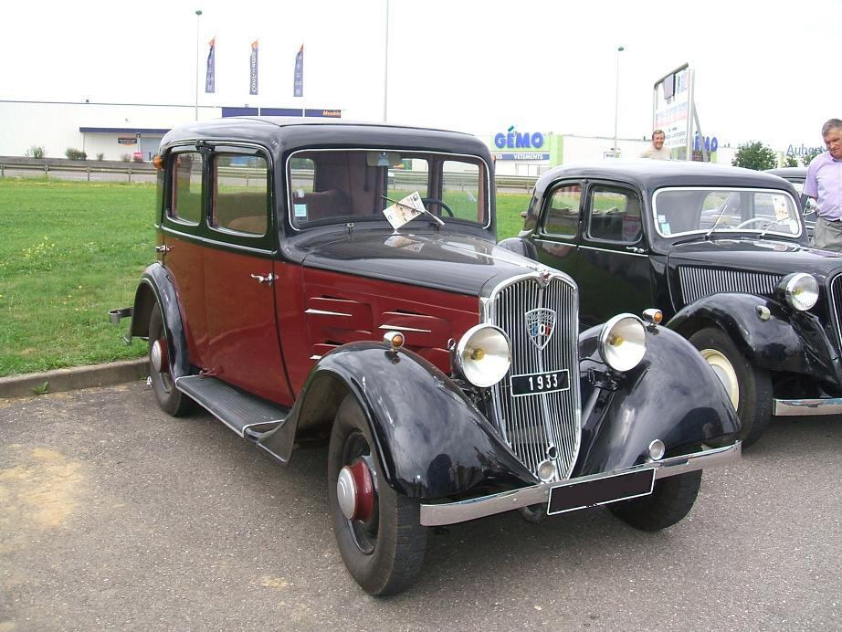 Peugeot 201